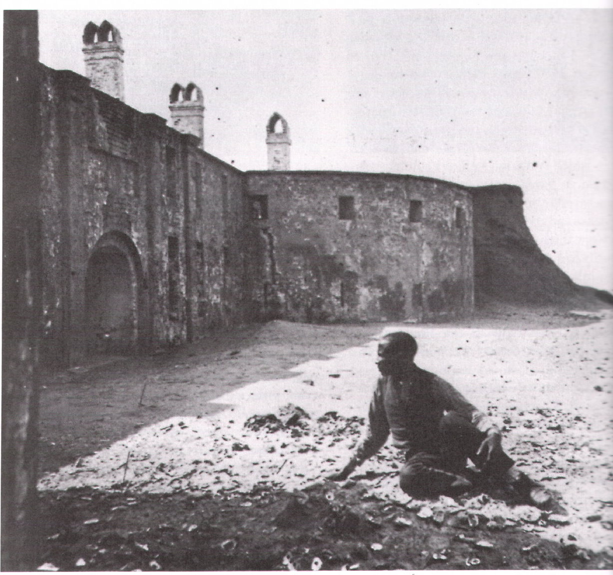 View on Fort Castle Pinckney